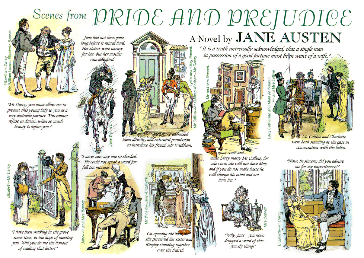 A card of Brock's illustrations of Jane Austen's Novel Pride and Prejudice, (some possibly touched up by his brother)